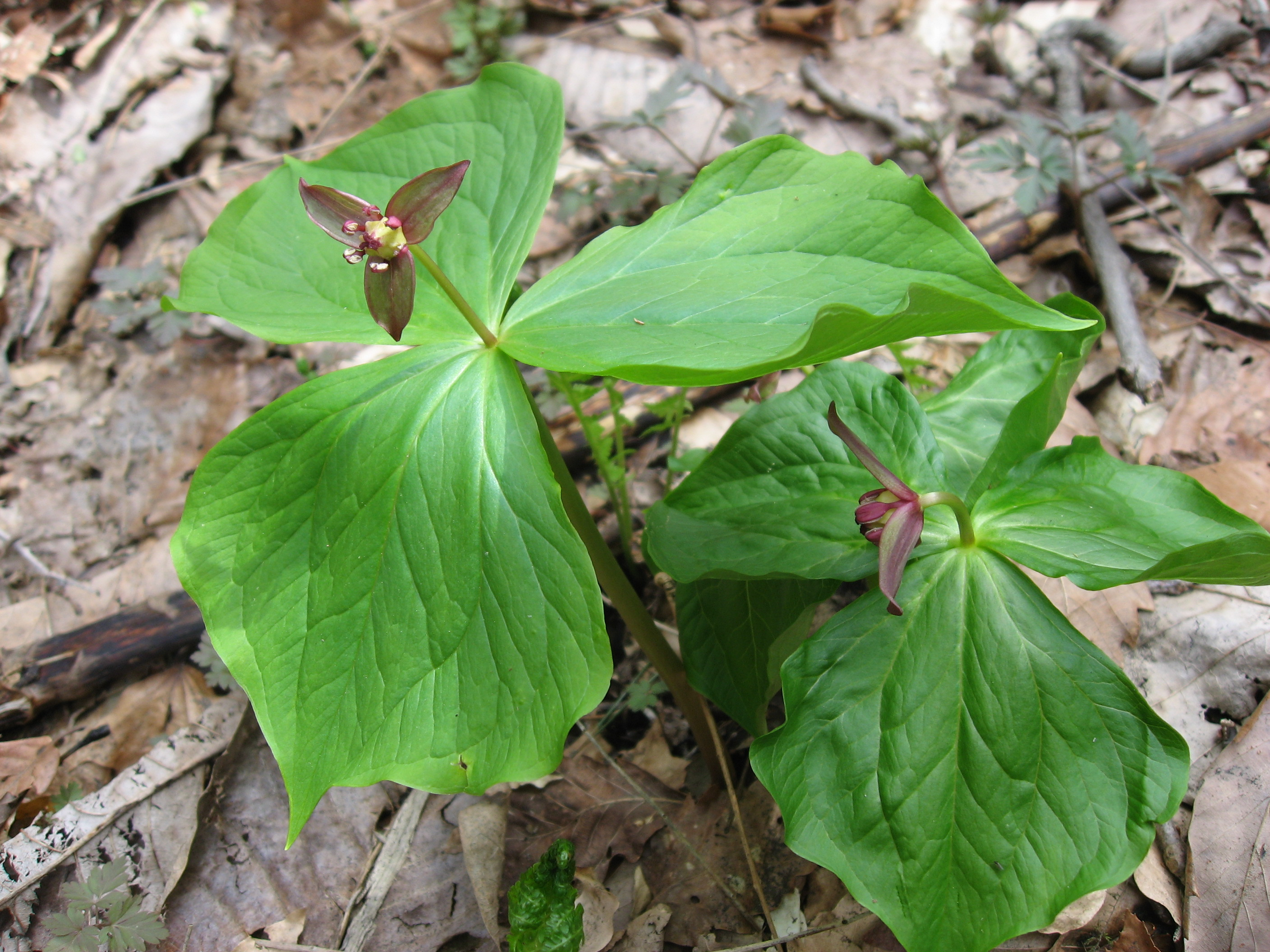 Trillium smallii, Aizu area, Fukushima pref., Japan